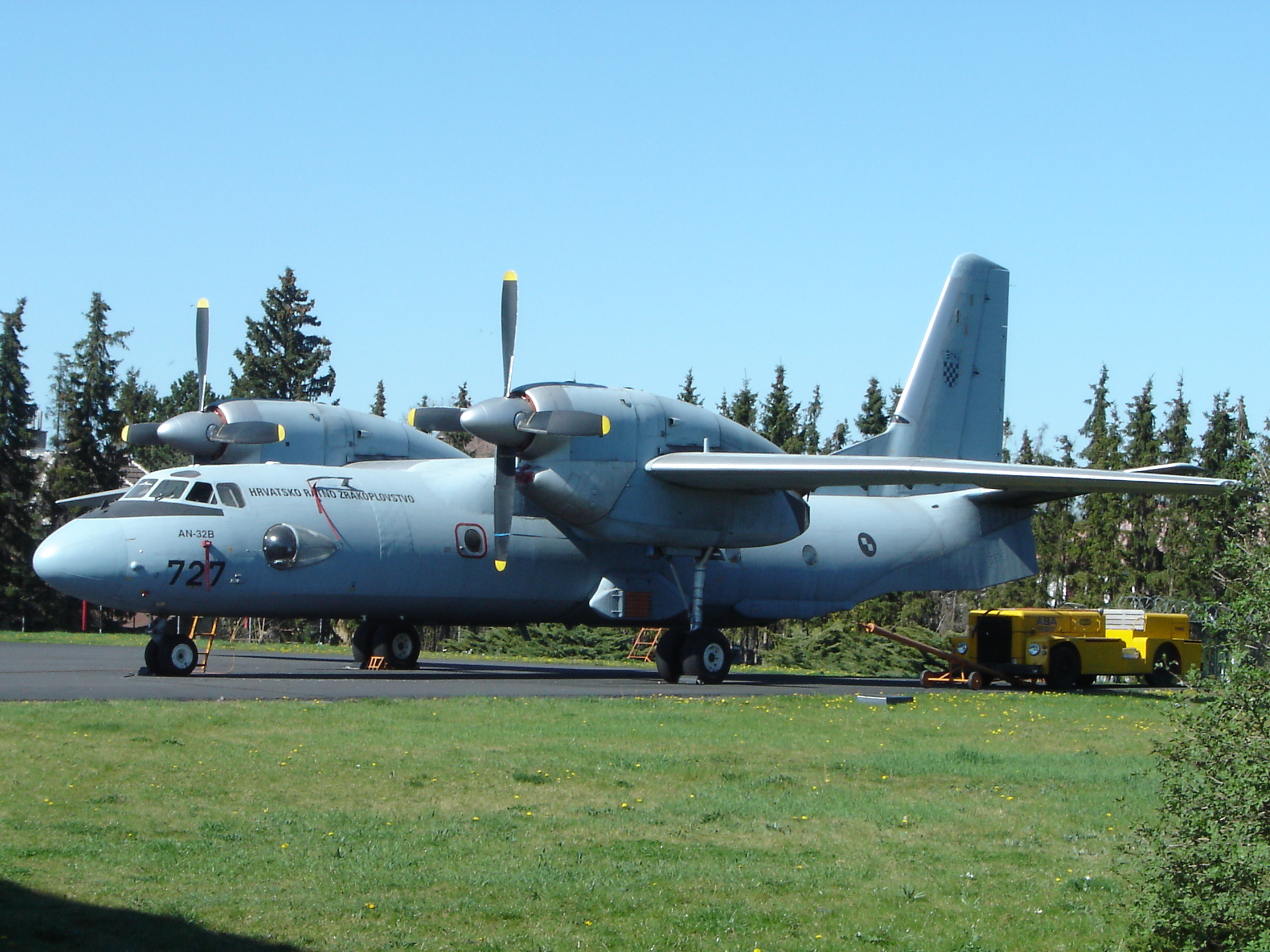 Antonov An-32B of Croatian Air Force on Prague-Ruzyně Airport